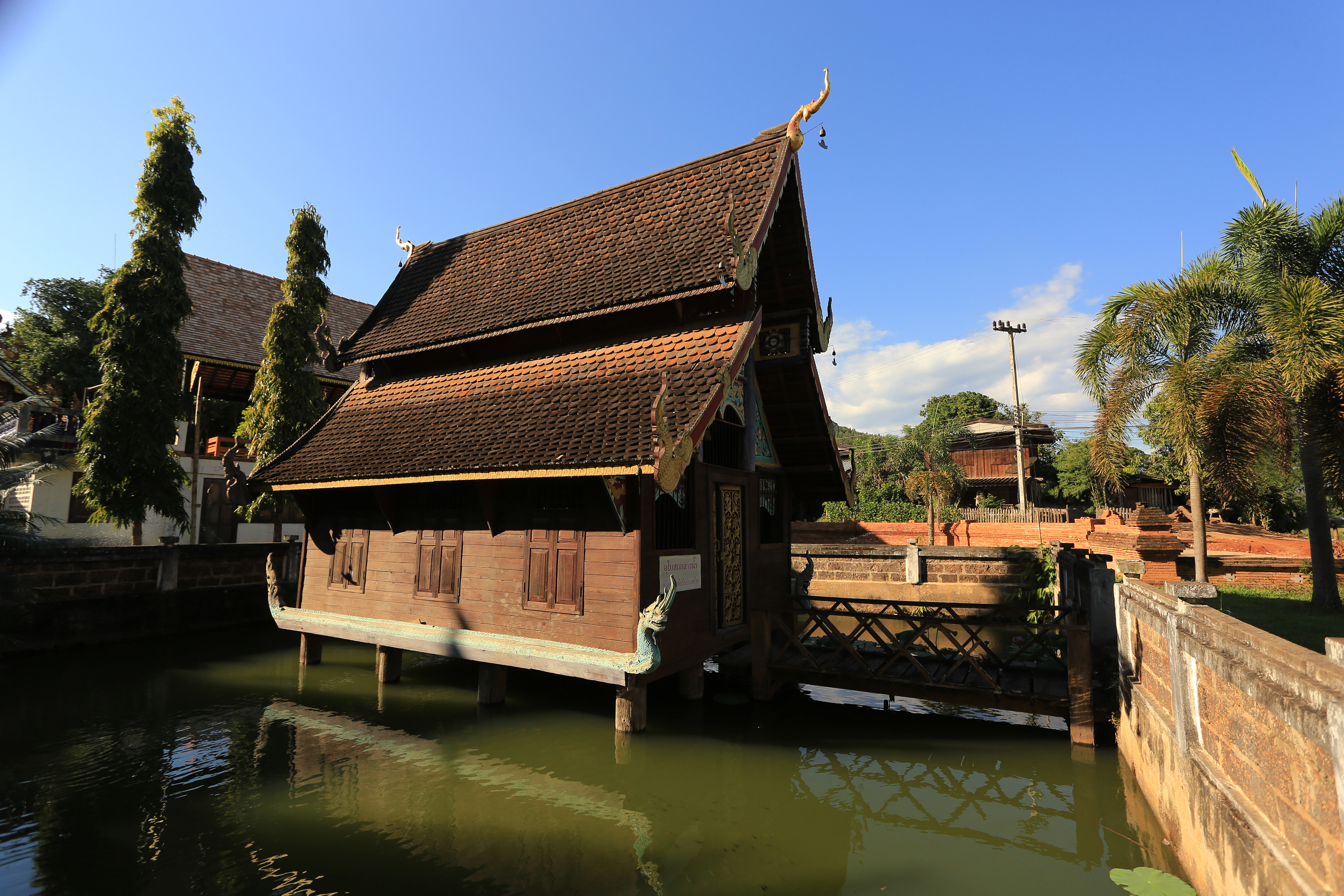 The ubosot (main chapel) using water as the boundary marker, Wat Phut En, Mae Chaem District, Chiang Mai Province